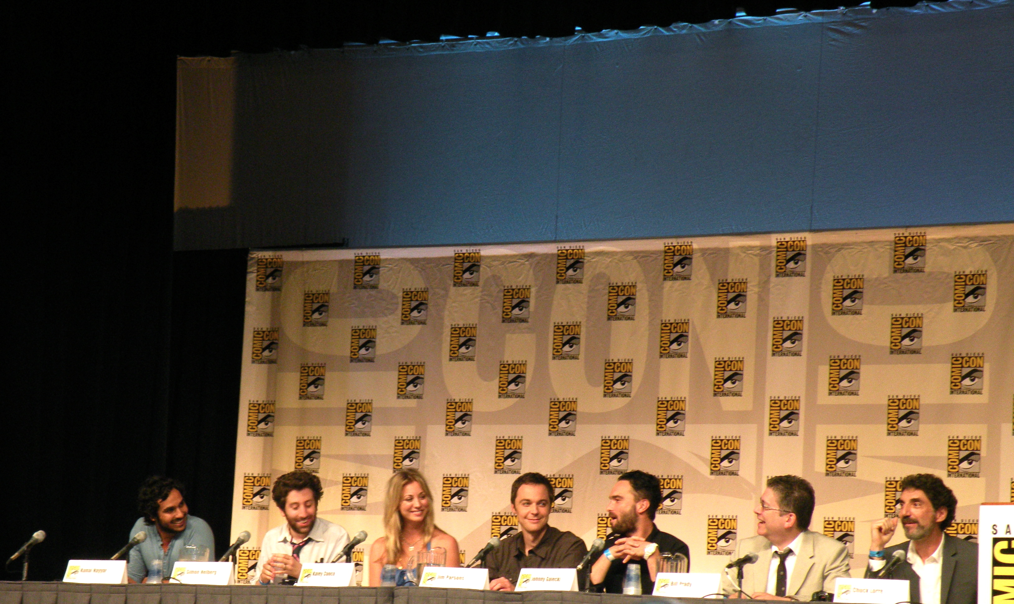 Jim Parsons, Johnny Galecki, Simon Helberg, Kunal Nayyar, Kaley Cuoco, Chuck Lorre, Bill Prady. The Big Bang Theory panel, San Diego Comic-con 2009